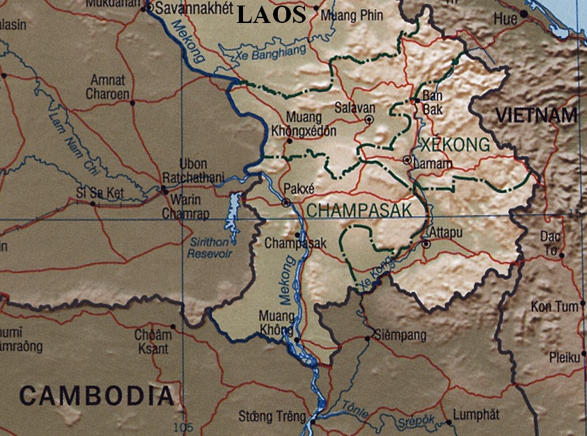 Kong River—Sekon River, Southern Laos. Tributaries of the Mekong.